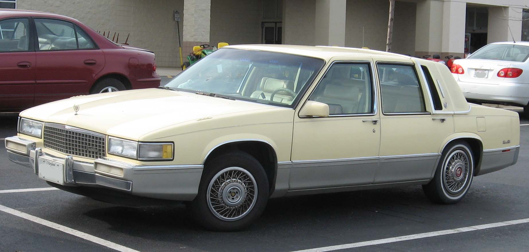 1989-1993 Cadillac Deville photographed in USA.